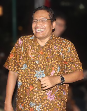 Ulil Abshar Abdalla in Utan Kayu 12 August 2011